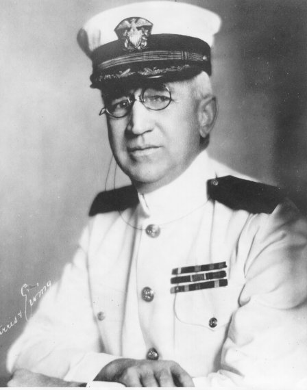 Official Navy photograph, circa 1923-1927.